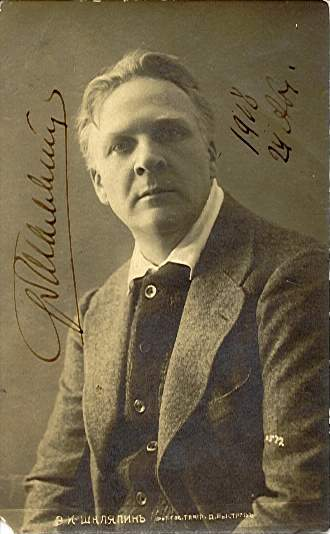 Feodor Chaliapin (1908)